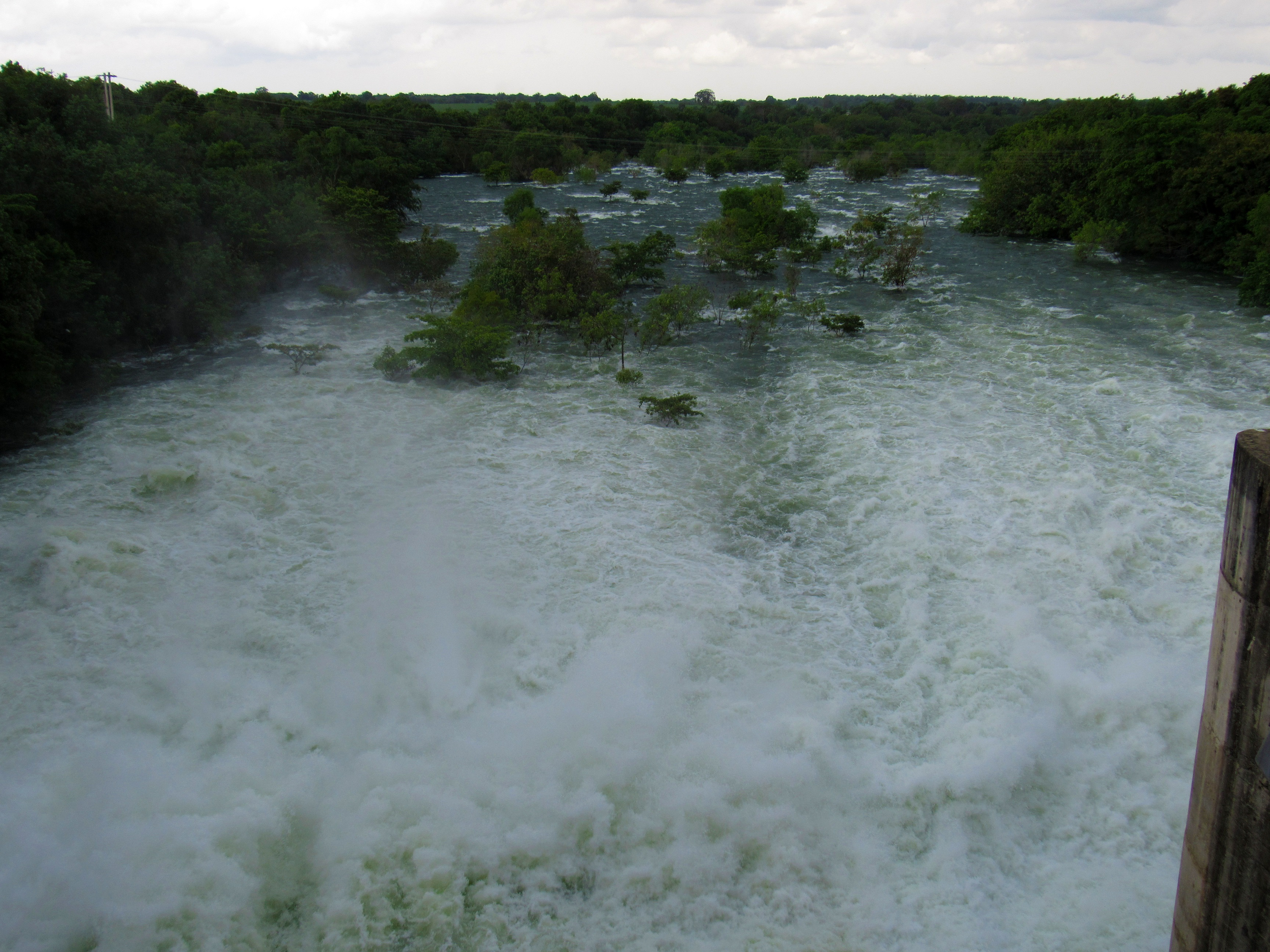 Spillways of the Udawalawe Dam in Sri Lanka.